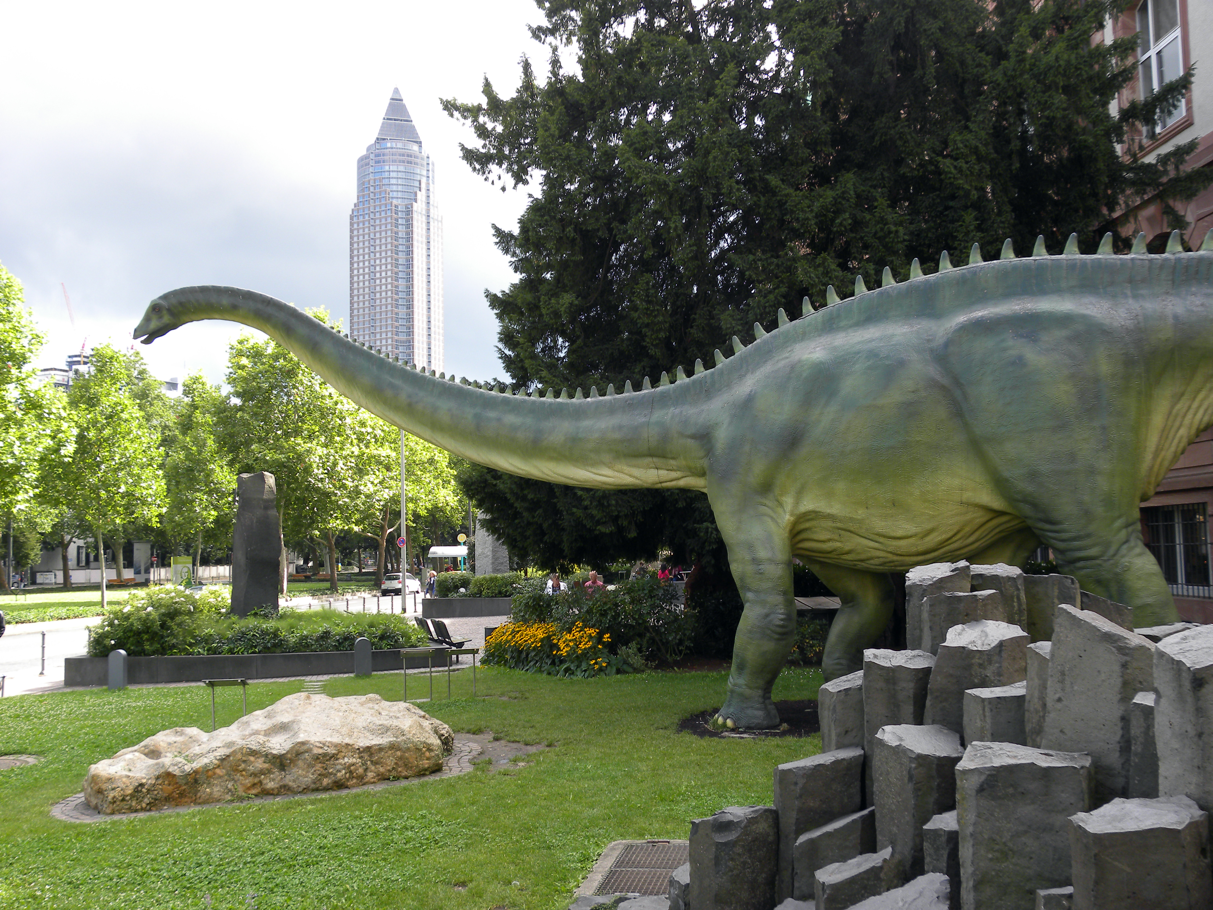 Diplodocus longus dinosaur model in front of the Senckenberg Museum, Frankfurt, Germany.